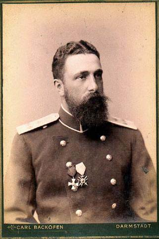 Alexander of Battenberg, photography from 1878